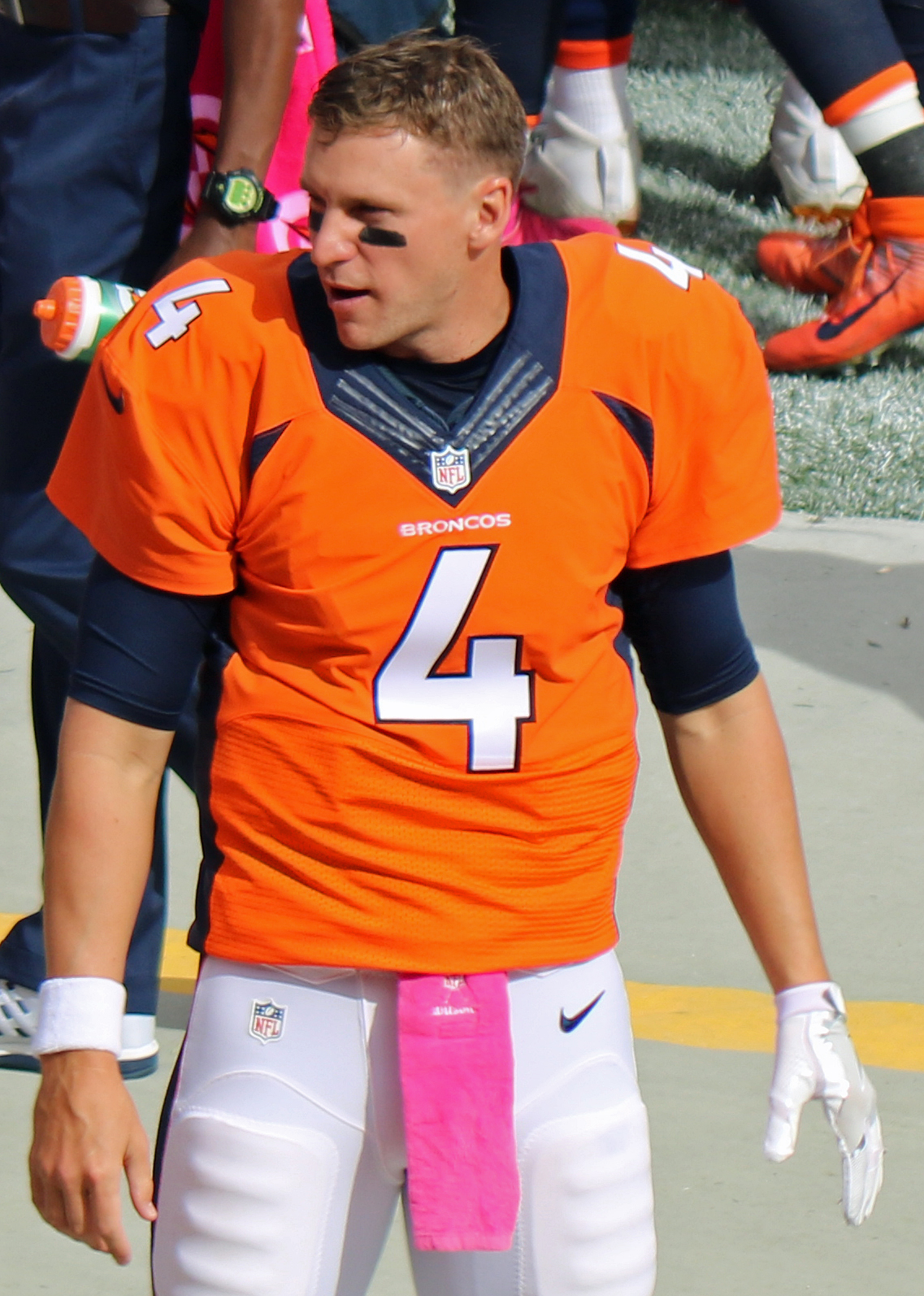 Austin Davis, a player on the National Football League.